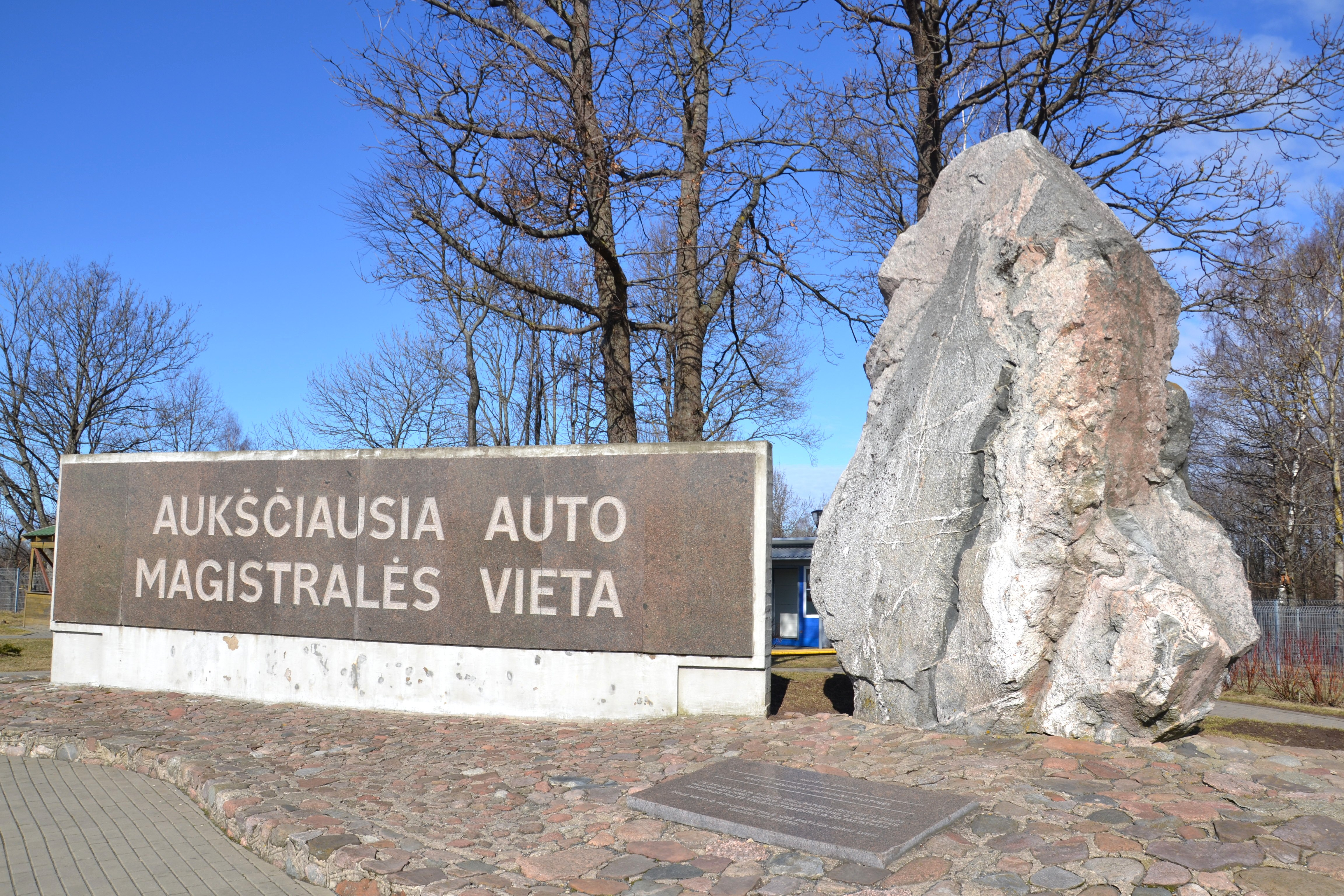 Stone of Rauško, Šilalė district, Lithuania